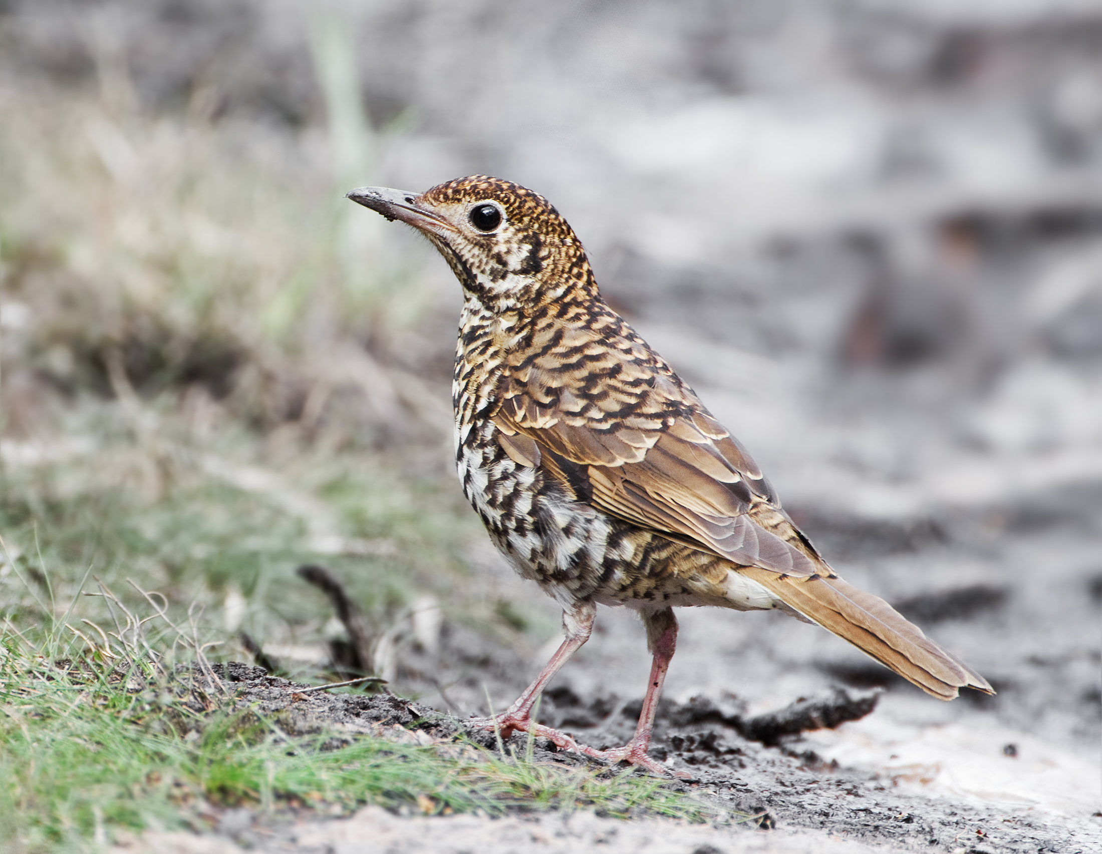 Bassian Thrush (Zoothera lunulata), Bruny Island, Tasmania, Australia